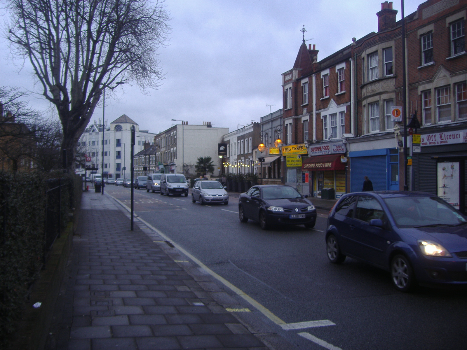 Askew Road, Shepherds Bush The B408 begins in Hammersmith and includes a pre-Worboys direction sign at the south end as of early 2010.